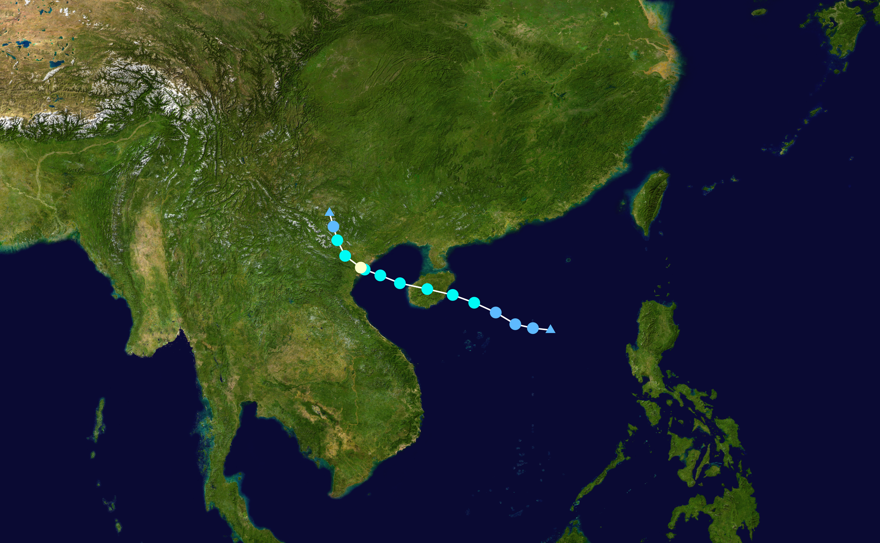 Track map of Severe Tropical Storm Mirinae of the 2016 Pacific typhoon season. The points show the location of the storm at 6-hour intervals. The colour represents the storm's maximum sustained wind speeds as classified in the Saffir–Simpson scale (see below), and the shape of the data points represent the nature of the storm, according to the legend below. Saffir–Simpson scale Tropical depression≤38 mph≤62 km/h Category 3111–129 mph178–208 km/h Tropical storm39–73 mph63–118 km/h Category 4130–156 mph209–251 km/h Category 174–95 mph119–153 km/h Category 5≥157 mph≥252 km/h Category 296–110 mph154–177 km/h Unknown Storm type Tropical cyclone Subtropical cyclone Extratropical cyclone / Remnant low / Tropical disturbance / Monsoon depression